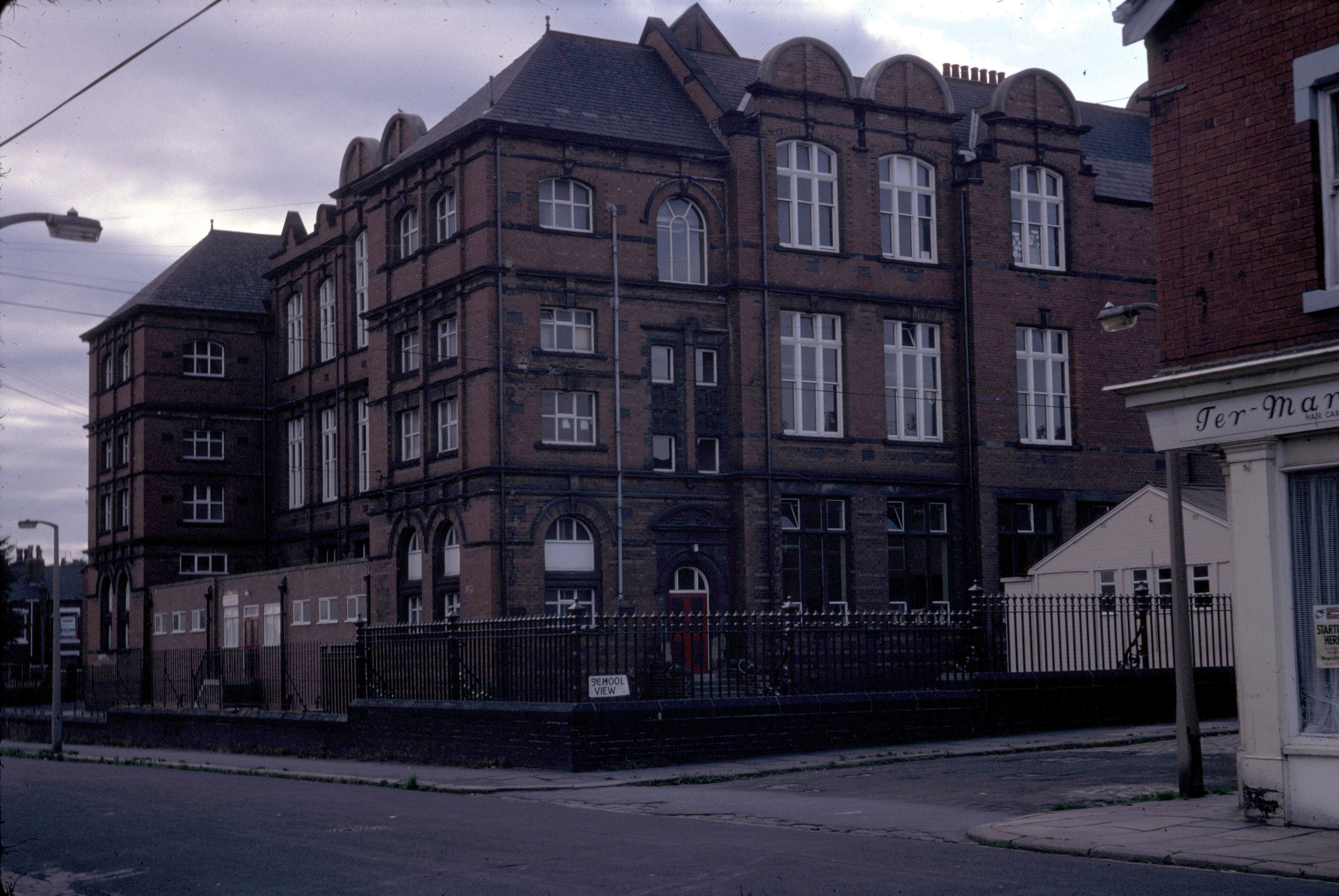 Brudenell School, also known as Brudenell Council School. See Wikipedia page for details. Built around 1900, demolished some time after this photo.